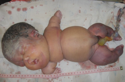 Greenberg Skeletal Dysplasia the new-born presented an hydrops fetalis, a narrow thorax and a protuberant abdomen